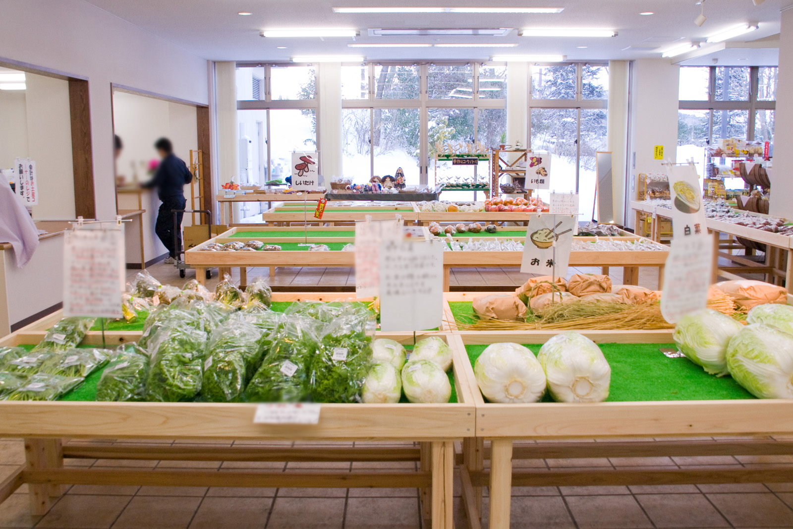 Highland vegetables sold at Michinoeki Kannabe Kogen in Toyooka City, Hyogo Prefecture, Japan